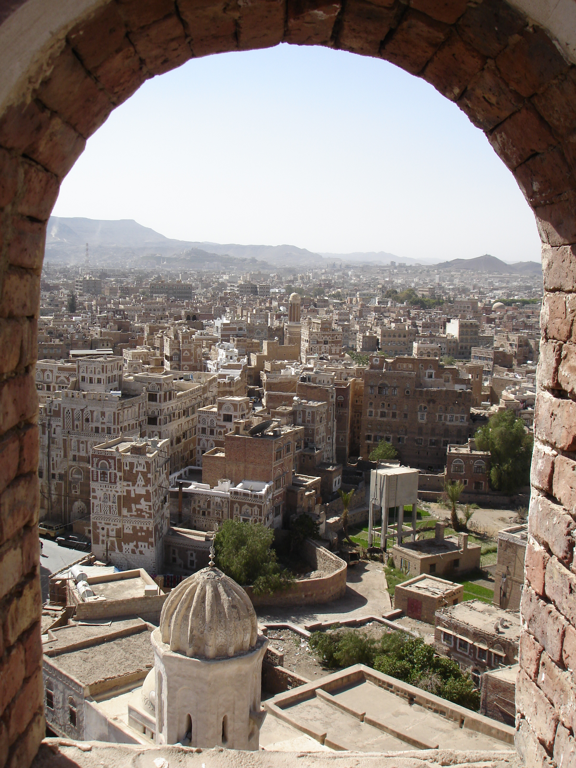 Views of Old Sana'a